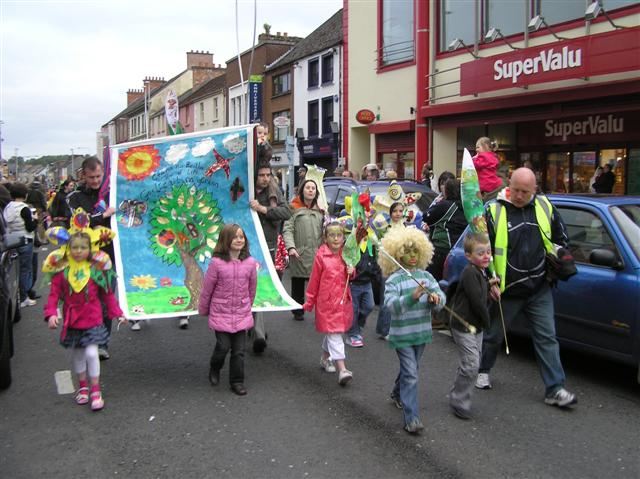 10th Annual Mid Summer Carnival, Omagh (37) Gaelscoil na gCrann is passing by